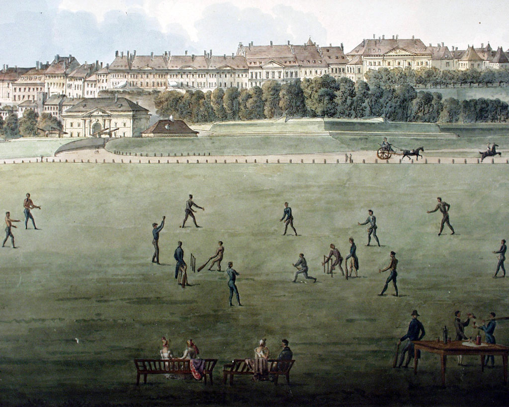 View of Geneva's Plaine de Plainpalais with cricket's players, 1817